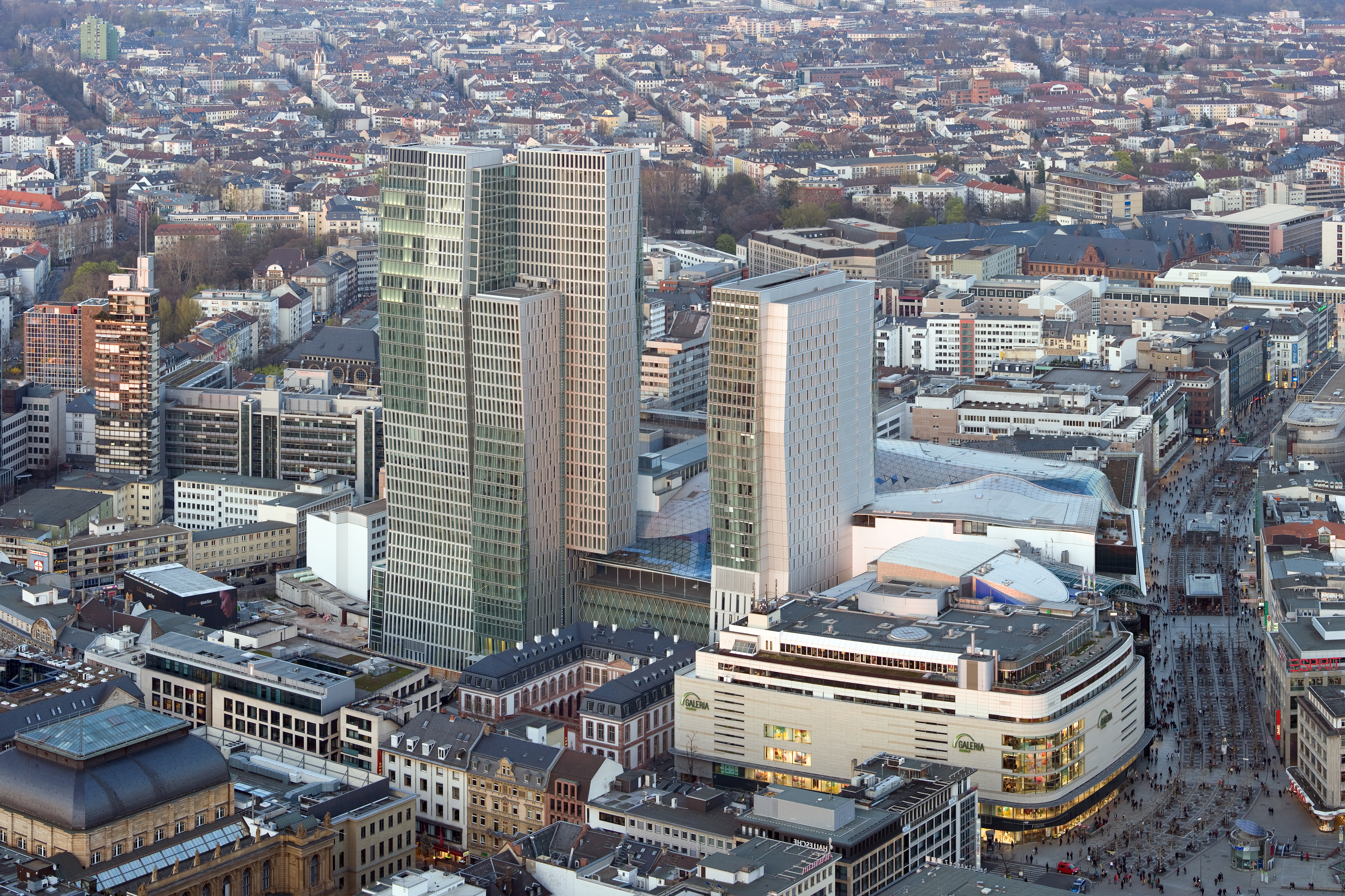 Frankfurt on the Main: PalaisQuartier as seen from the Maintower